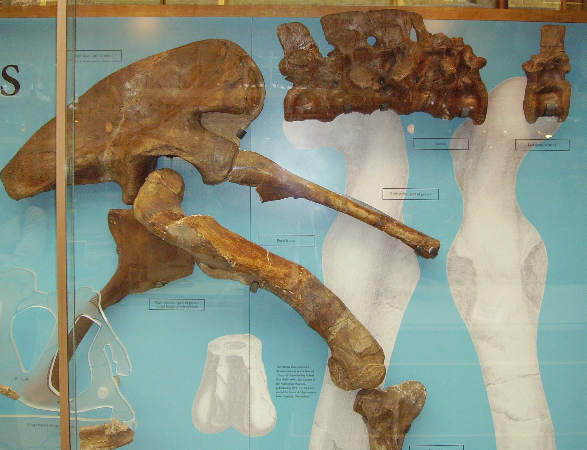 Photographer: User:Ballista